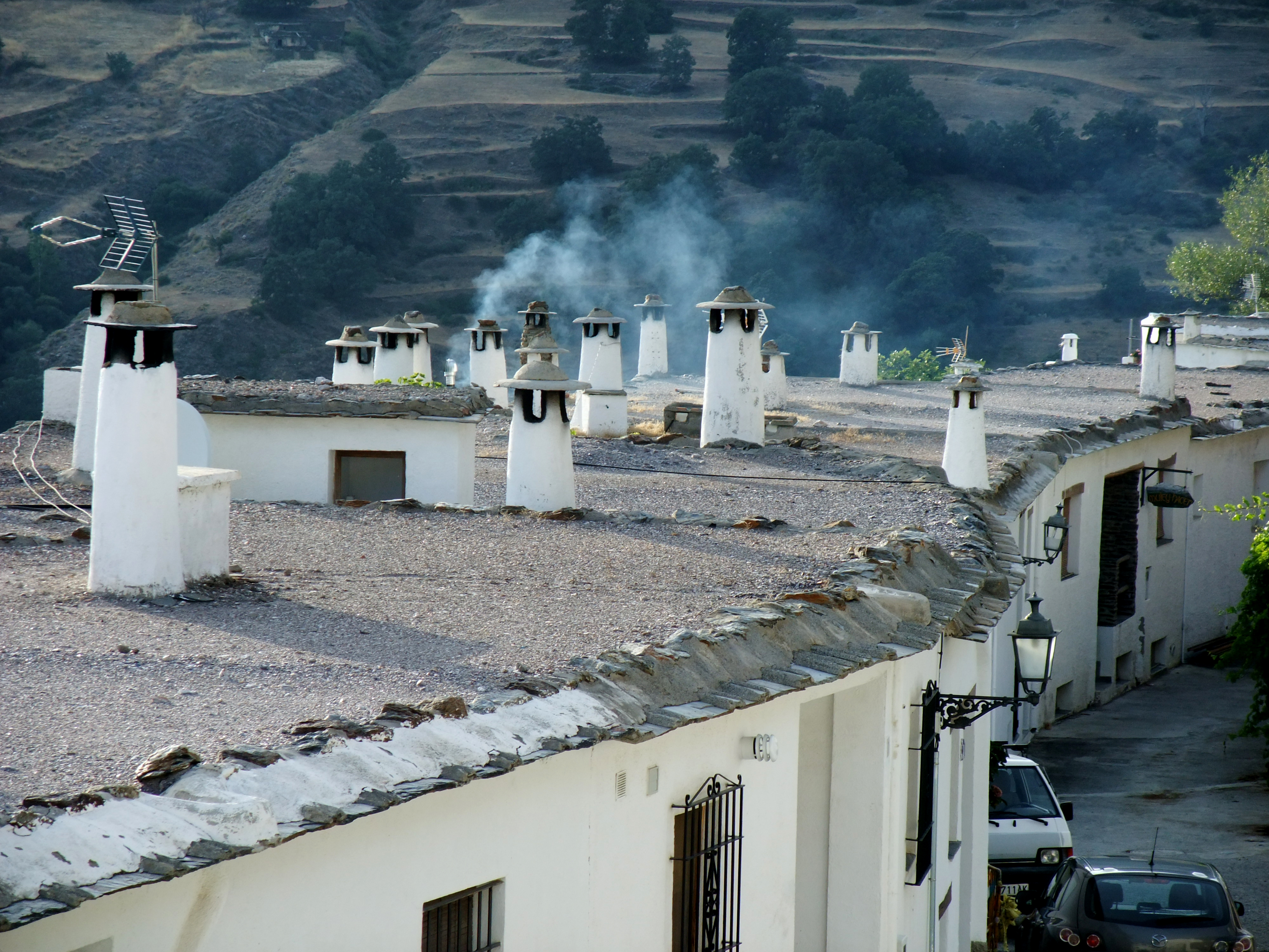 Chimneys of Capileira, Granada in Spain